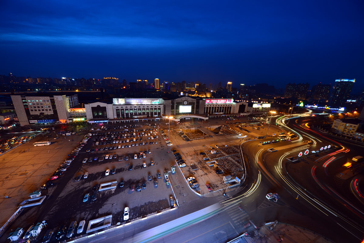 The night of Harbin railway station